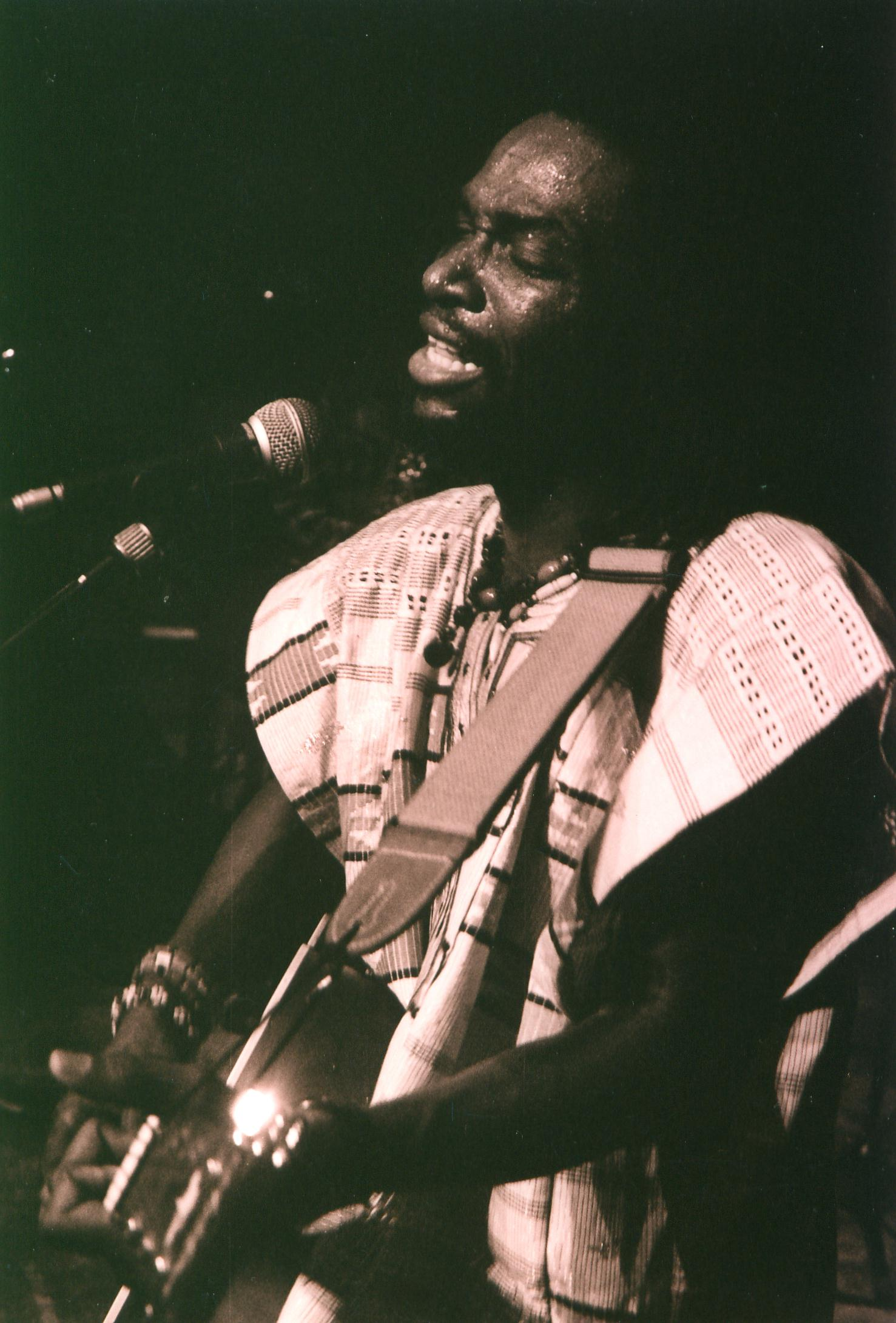 Beautiful Nubia in performance